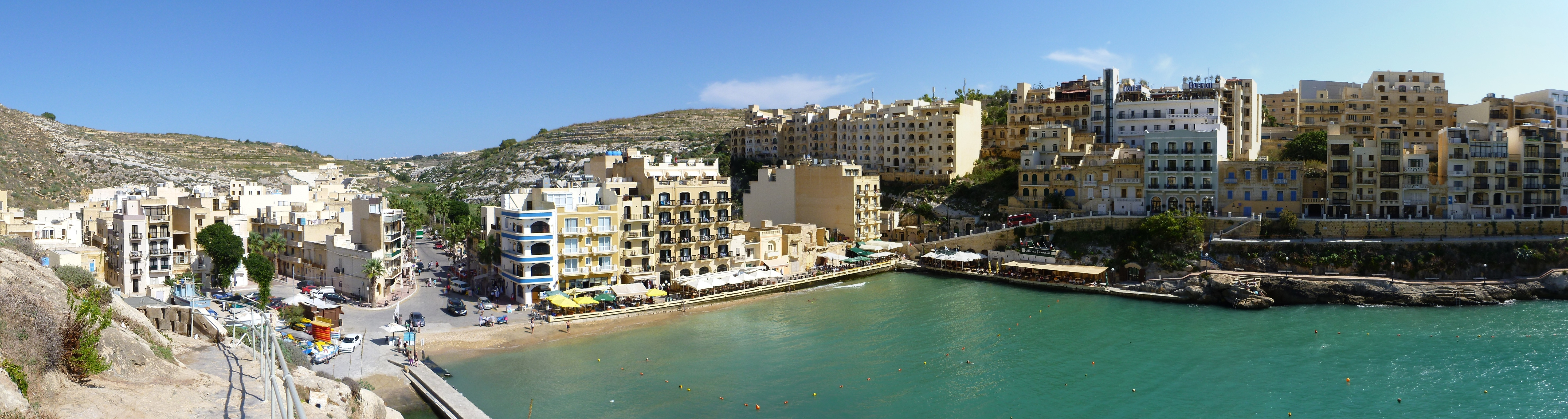 Panorama of the inner part of Xlendi bay with the beach and many restaurants at the shore line